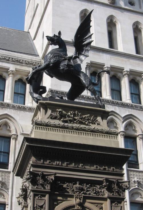 Dragon statue atop monument at Temple Bar, London. Photograph taken by Michael Reeve, 18 April 2003.